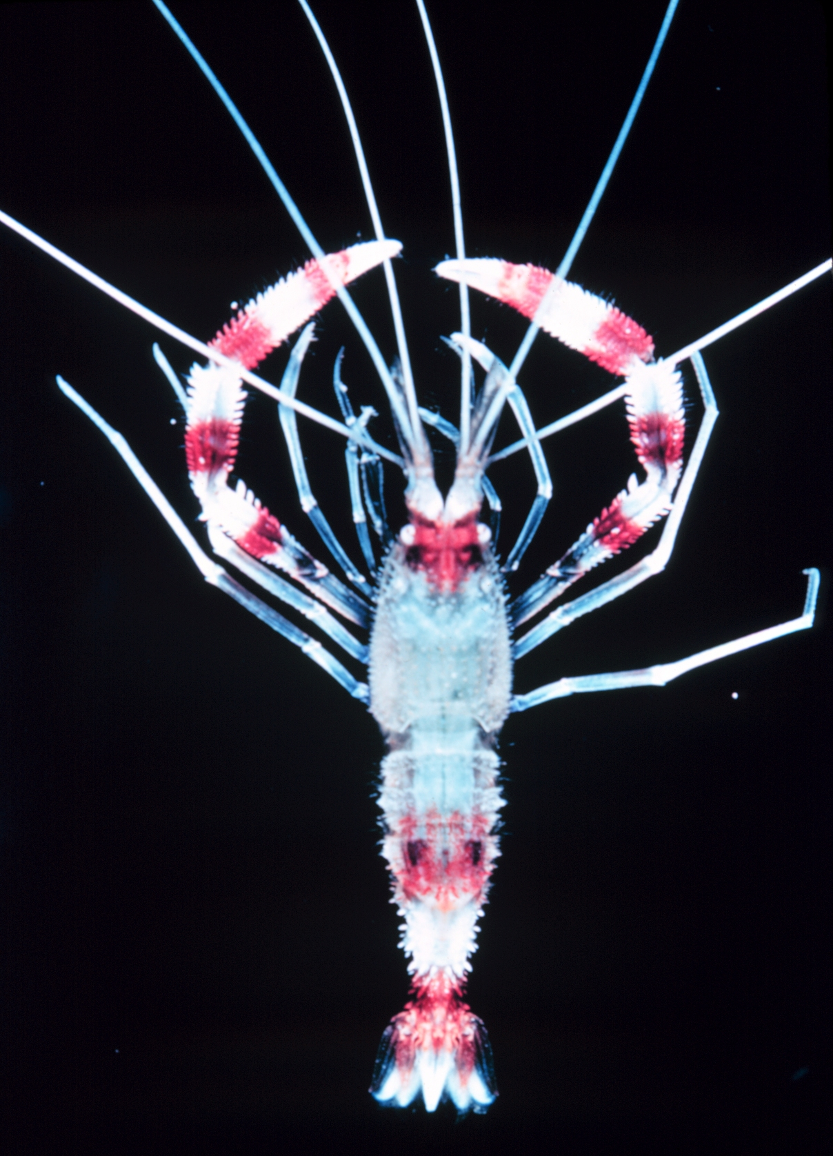 Banded cleaner shrimp.